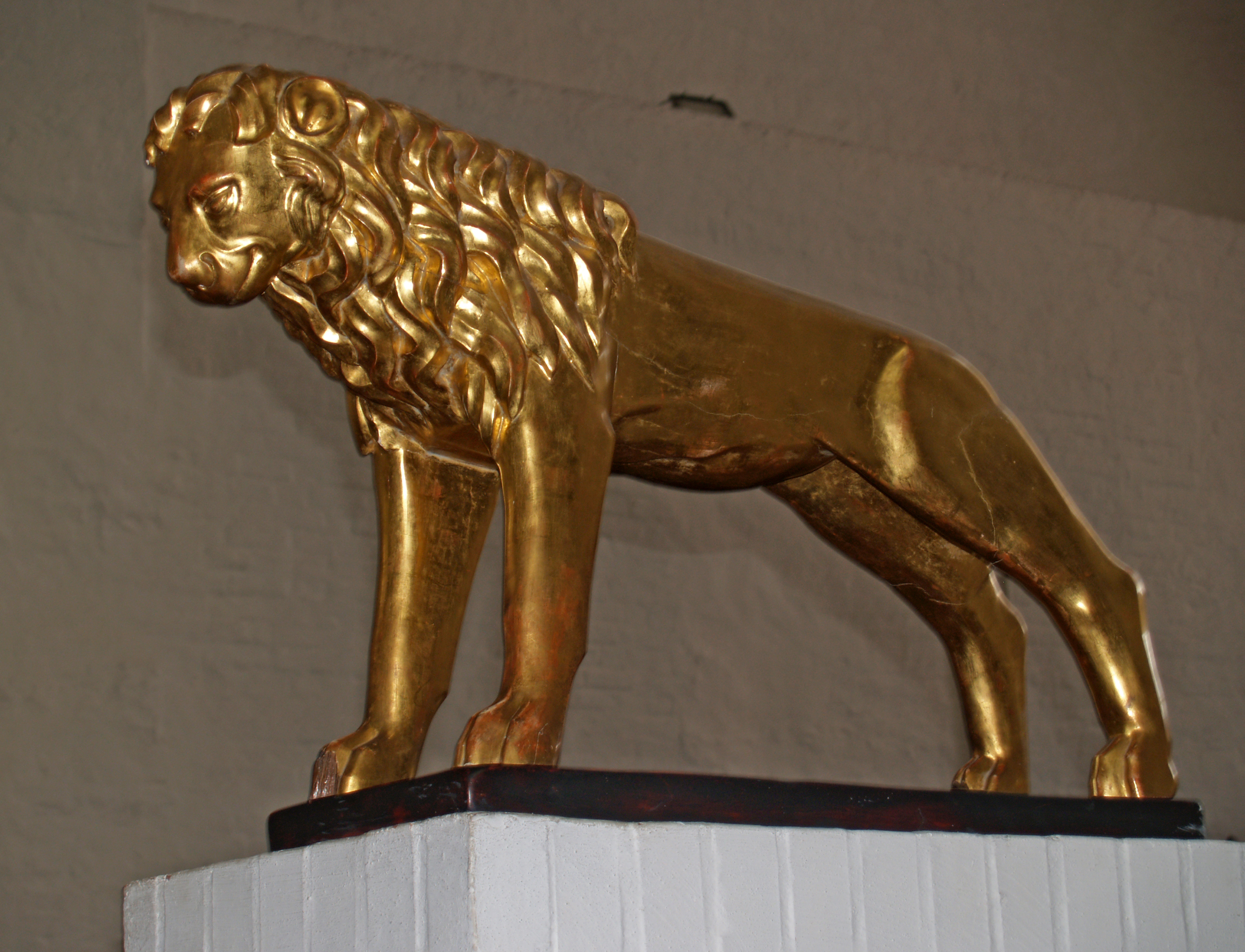 The golden lioness in the cathedral of Luebeck, Germany